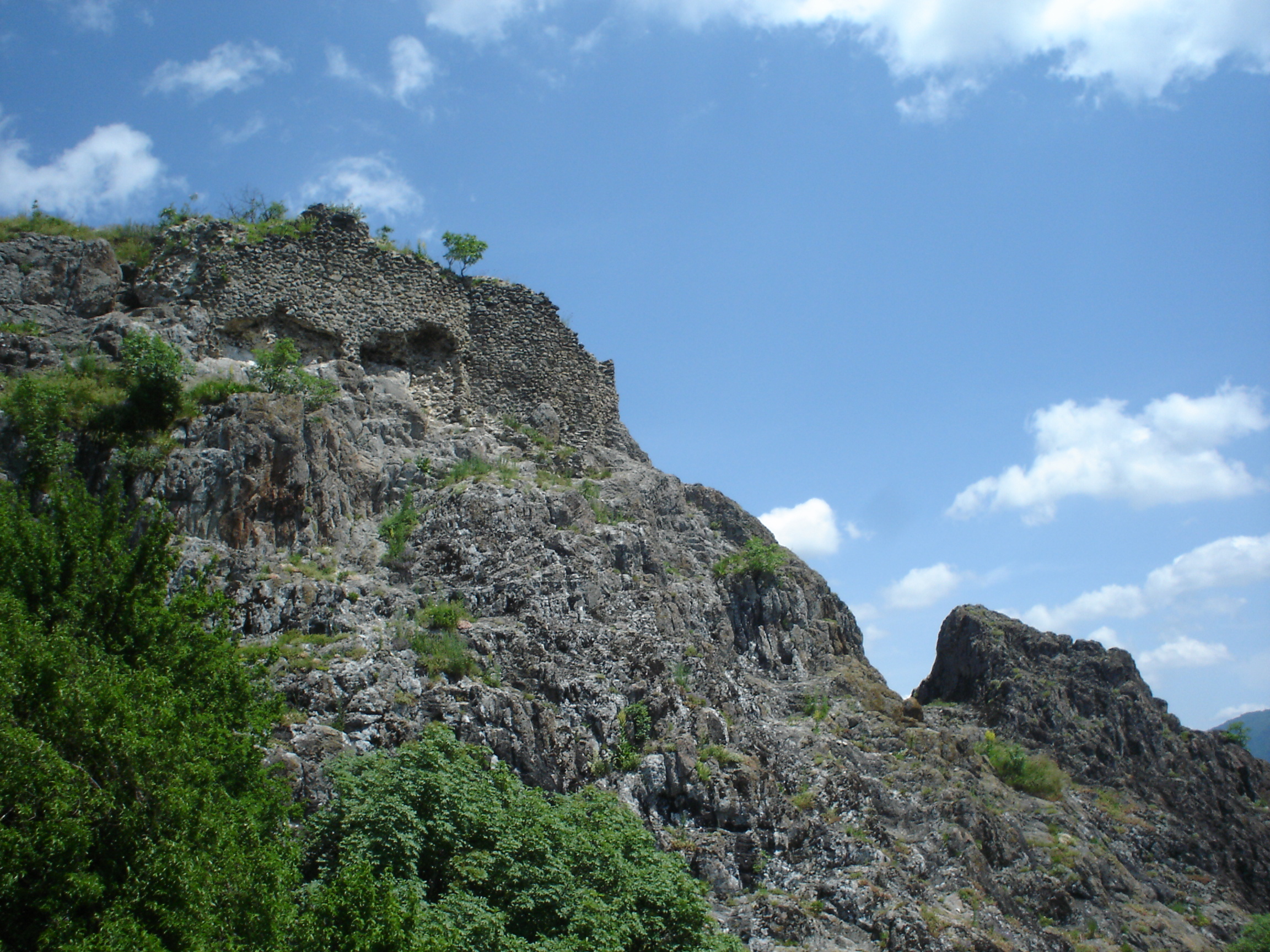 Remains of medieval fortress on Ostrvica (Rudnik, Serbia), with dry moat on the right.